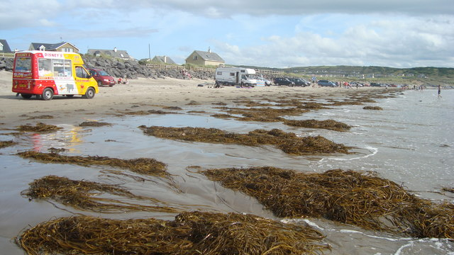 Seaweed on Rossnowlagh Large amounts of sea spaghetti; himanthalia elongata.